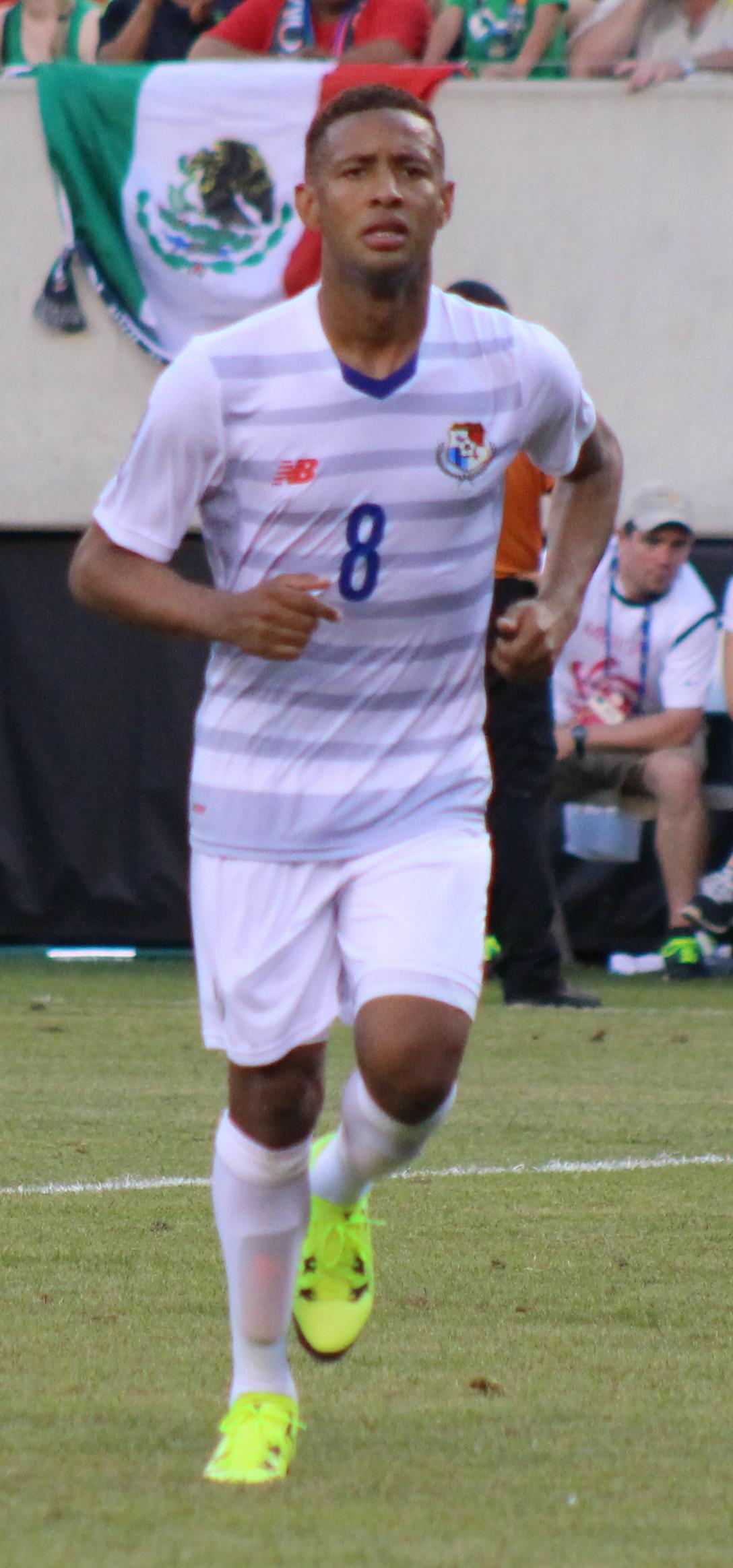 Panamanian forward Gabriel Torres